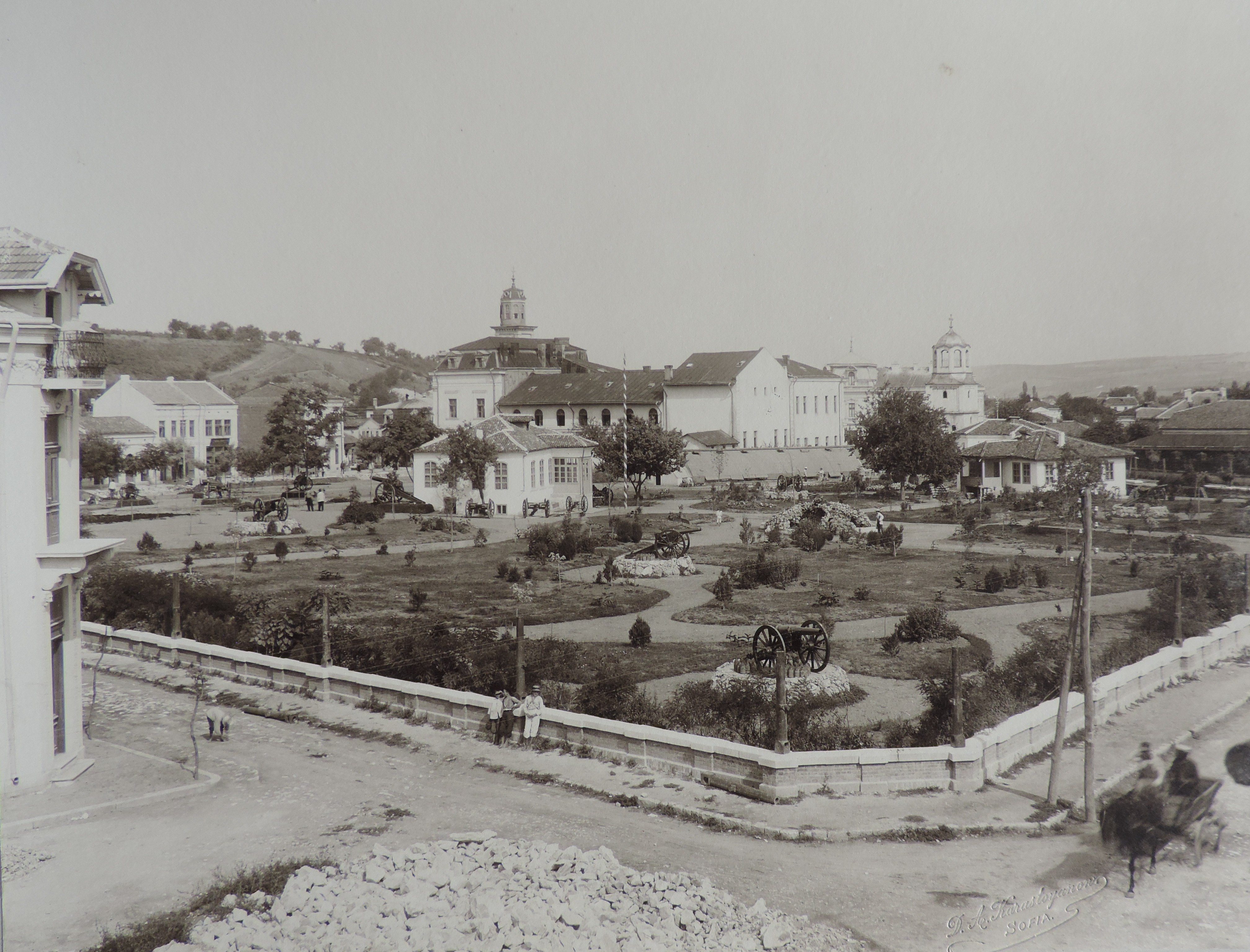 Historic military photos. Museum house "Tsar Liberator Alexander II" in Pleven.